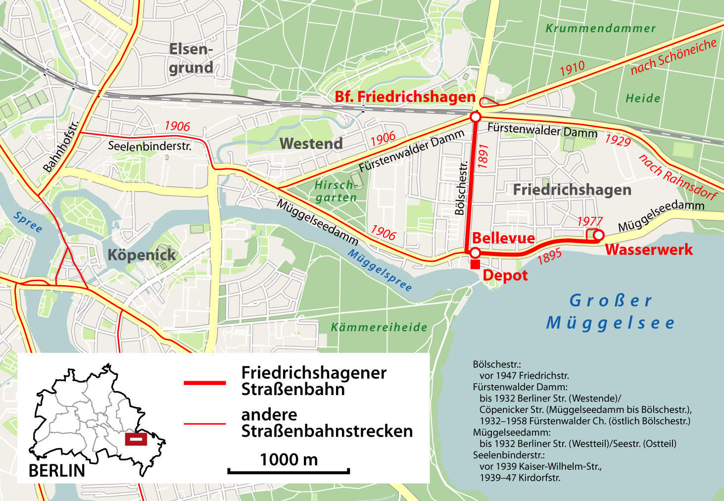 Map of the tram in Friedrichshagen (Berlin) This map may be incomplete, and may contain errors. Don't rely solely on it for navigation.